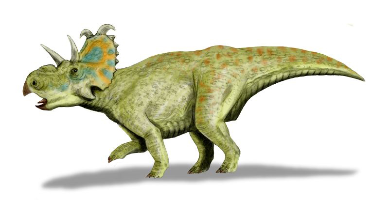 Albertaceraops nesmoi, a ceratopsian from the Late Cretaceous of North America, pencil drawing, digital coloring